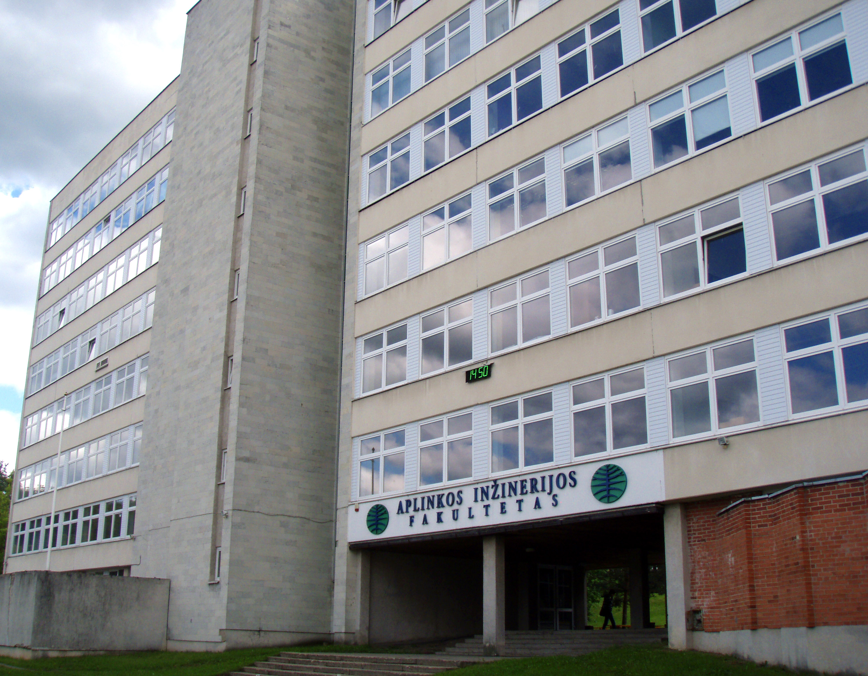 Vilnius Gedeminas technical university, Faculty of Environmental Engineering, Lithuania